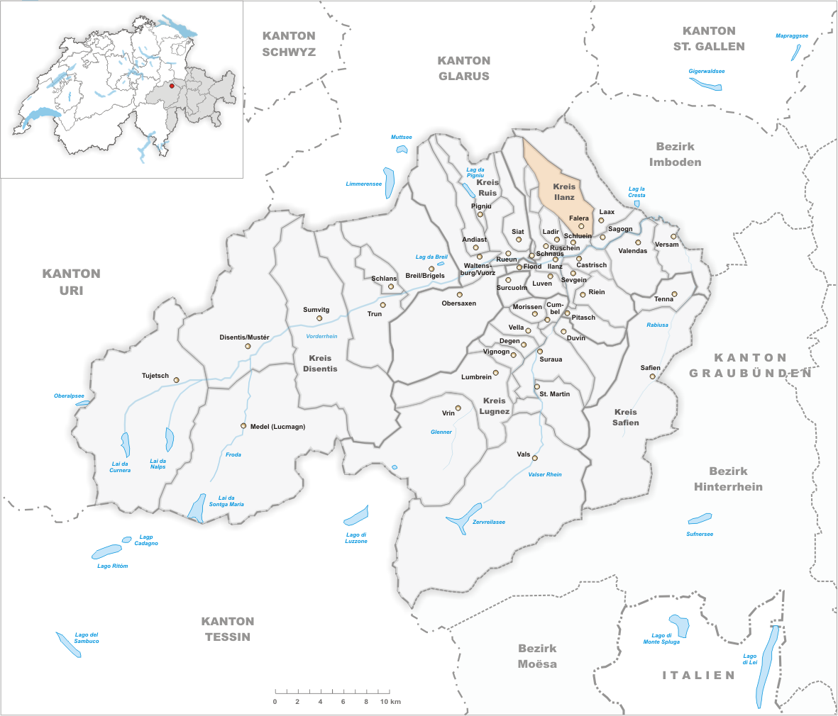 Municipality Falera